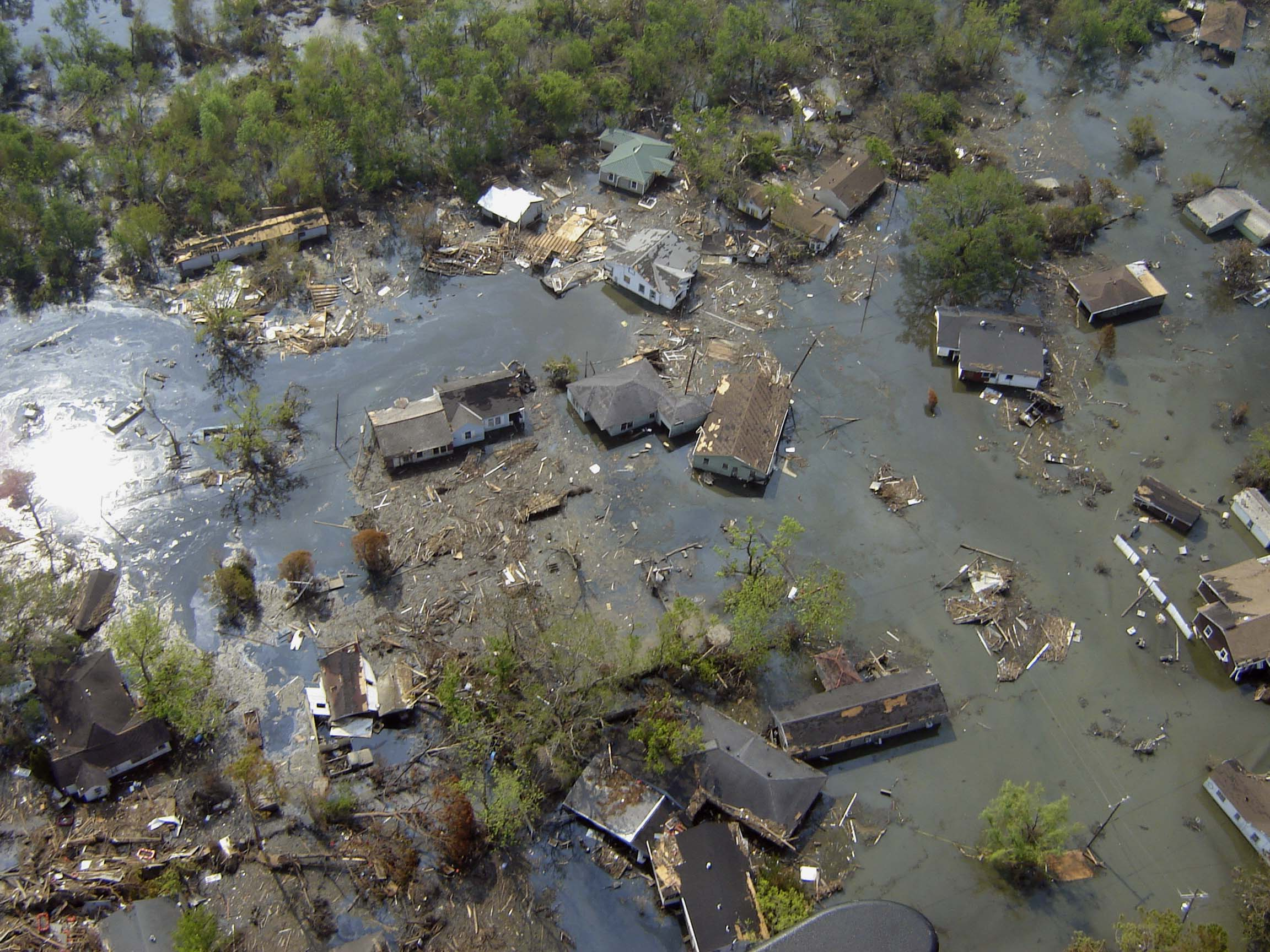 Port Sulphur Louisiana after Hurricane Katrina, extensive residential damage and flooding.